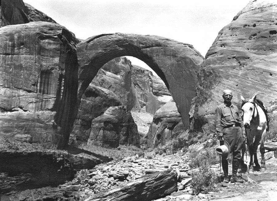 William B. Douglass, Examiner of Surveys under the General Land Office, who was completing a survey of the newly created Natural Bridges National Monument also heard the story of a marvelous natural bridge. He informed his superiors who instructed him to attempt to locate the bridge. Thus, the "race" began. There had apparently been friction between Cummings and Douglass in the past. Indeed, at the time when both parties were preparing expeditions to search for the bridge, Douglass was also attempting to have Cummings' permit to excavate archeological sites revoked. John Wetherill, who was organizing the Cummings expedition, was placed in the position of being a mediator for the two groups. After much discussion and at least one false start, the two rivals agreed to combine their resources. On August 11, 1909, the US discovery group began their trek to the bridge. They were guided by Ute Mountain Ute Jim Mike, a member of the Douglass party who had supposedly heard about the bridge from the Navajos. Along the way they were to meet up with Paiute Nasja Begay, another local who knew the route to the bridge. Finally, late in the afternoon of August 14, the weary riders reached their goal. The rivalry between Cummings and Douglass had not lessened during the journey, however, and both men spurred their horses in an attempt to be the first white man to ride under the bridge. John Wetherill saw what was happening and, being closer to the bridge, went on ahead and rode under the span. It is unclear if Wetherill was motivated by diplomacy or irritation, but his actions did defuse this particular point of contention between Cummings and Douglass. The two explorers rode side-by-side under the bridge--after Wetherill.